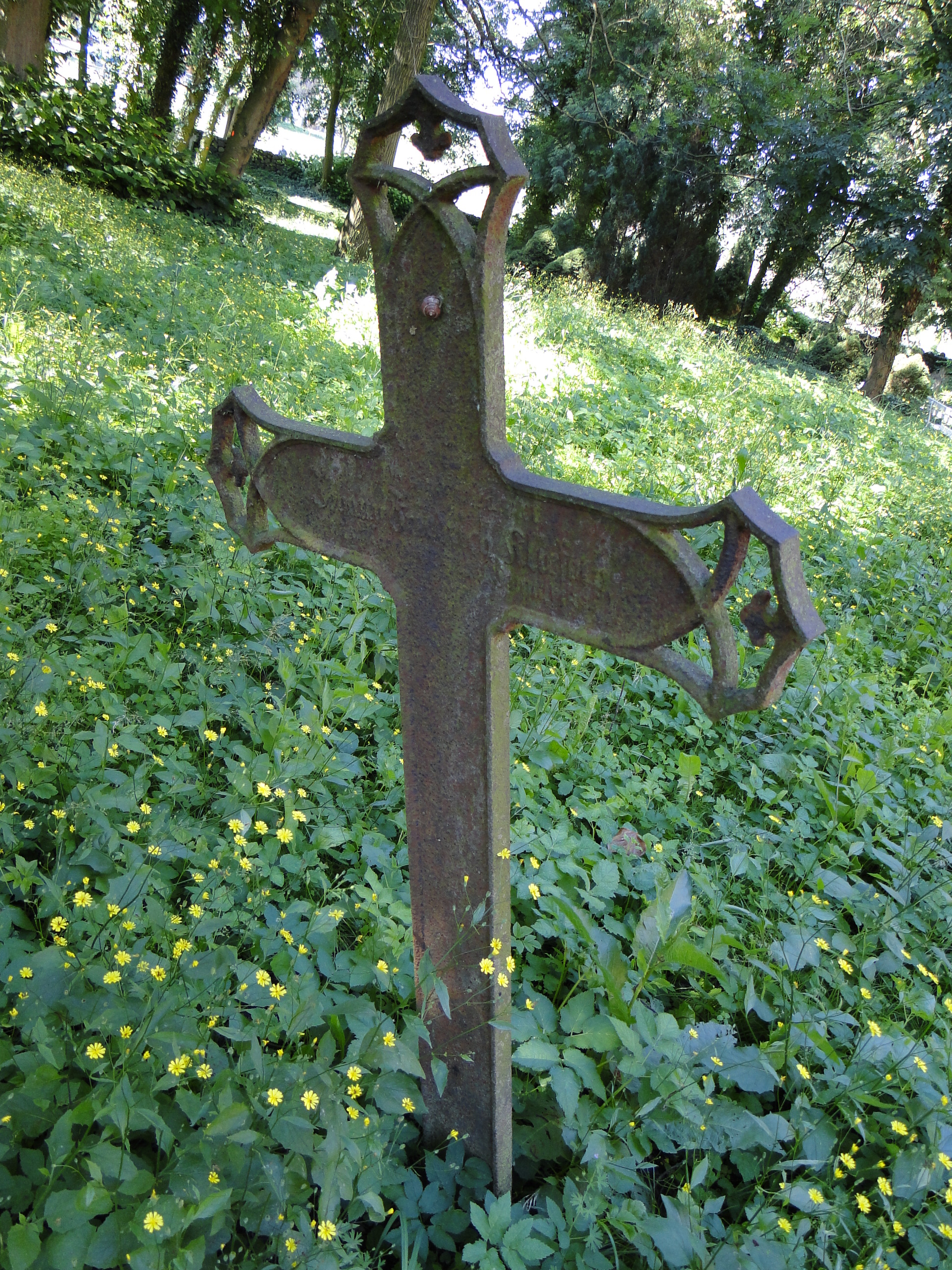 Grave cross at cemetery in Kirch Kogel, district Güstrow, Mecklenburg-Vorpommern, Germany